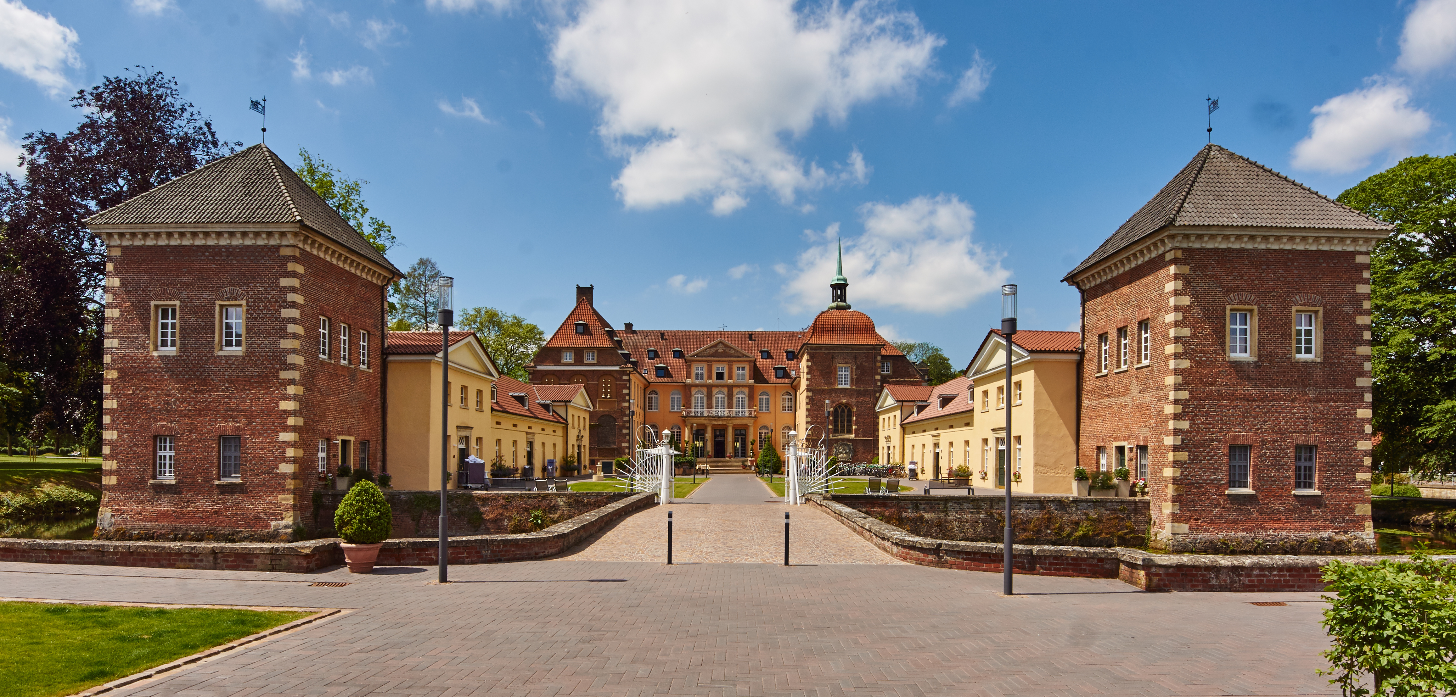 Schloss Velen, Velen This is a photograph of an architectural monument.